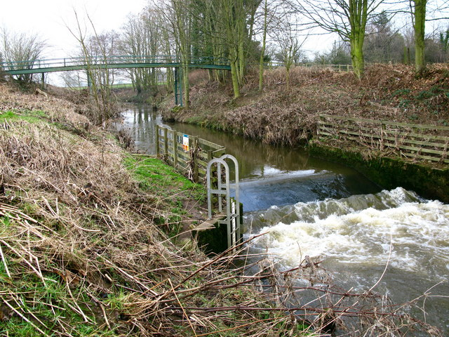 River Seven Weir Looking upstream from the Normanby Flow Gauging Station.